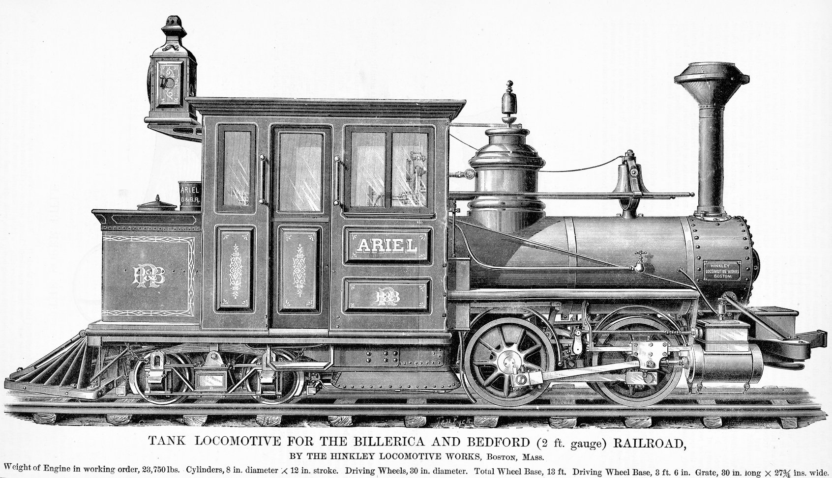 Tank Locomotive 'Ariel' for the Billerica and Bedford (2 ft. gauge) Railroad by the Hinkley Locomotive Works, Boston, Mass. (Scientific American, 16 March 1878)